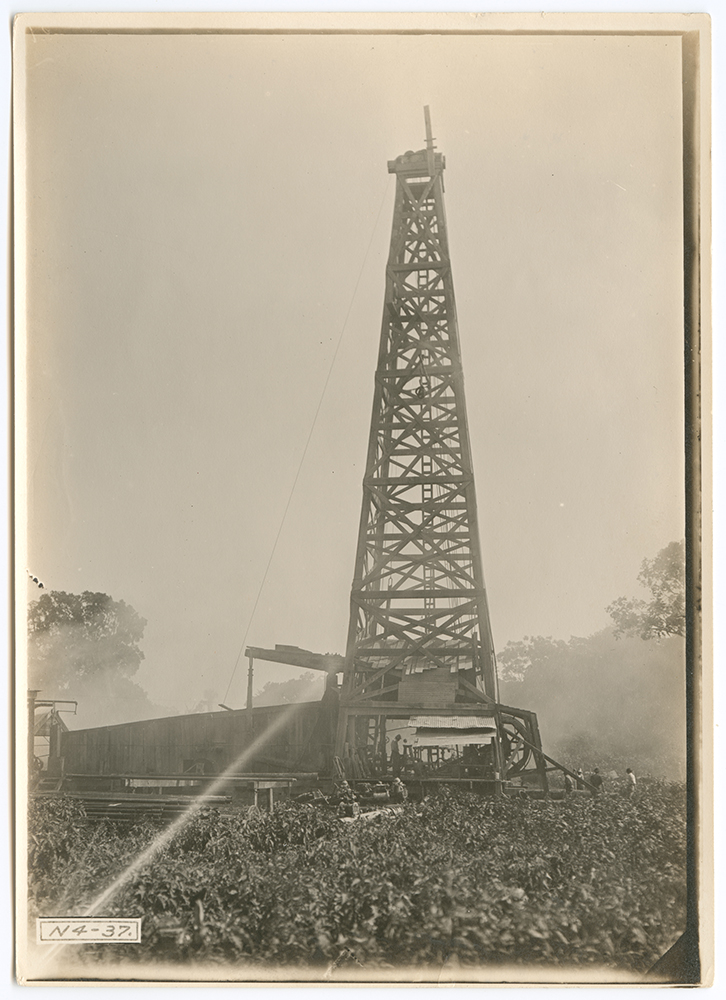 Title: [Potrero del Llano No. 4 being drilled] Date: 1910 Part Of: Place: Tuxpan, Veracruz, Mexico Physical Description: 1 photographic print: 18 x 13 cm. File: ag1981_0004_3_28r_opt.jpg Rights: Please cite DeGolyer Library, Southern Methodist University when using this file. A high-resolution version of this file may be obtained for a fee. For details see the web page. For other information, . For more information and to view the image in high resolution, View Mexico: Photographs, Manuscripts, and Imprints